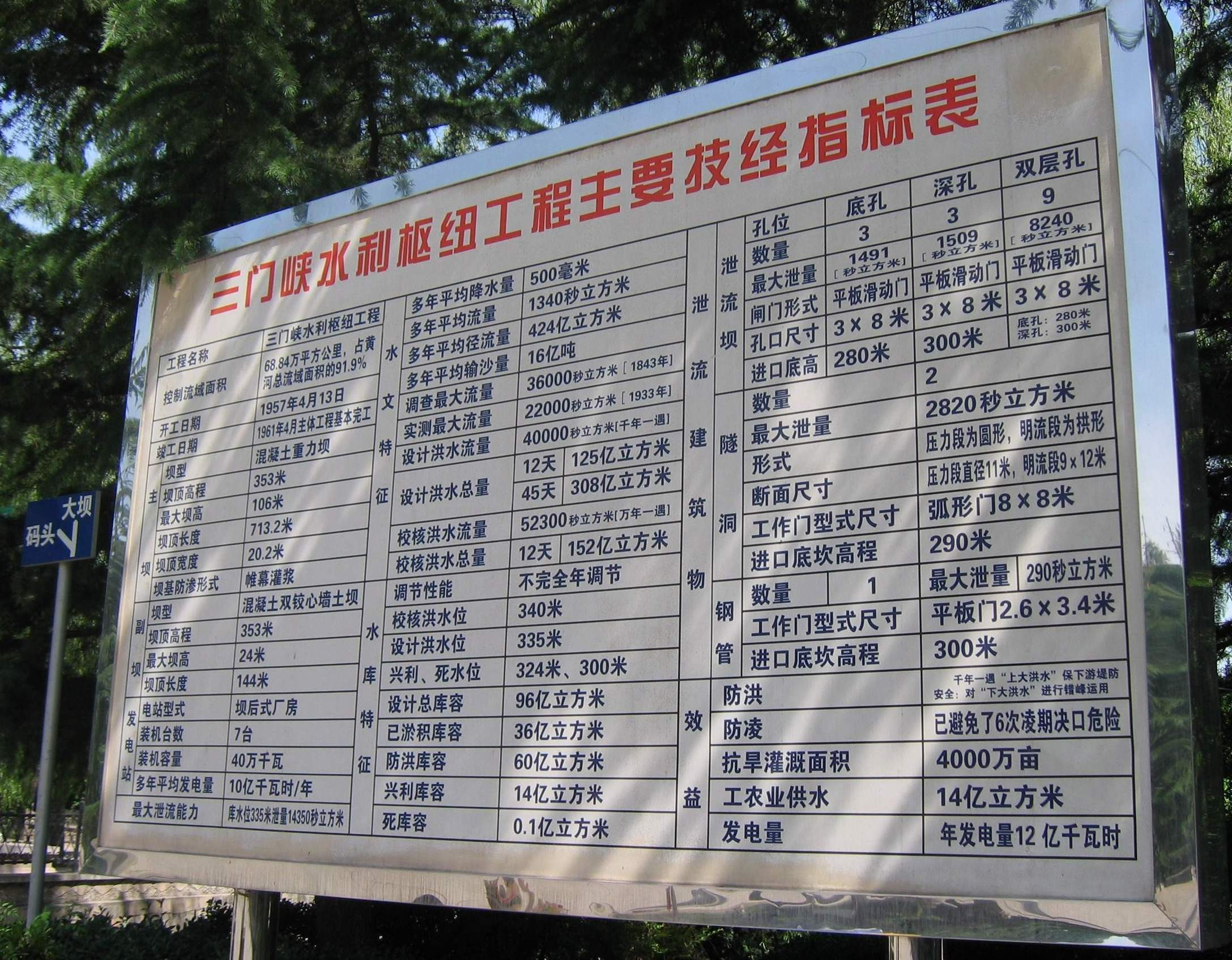 Sanmenxia Power Plant info board